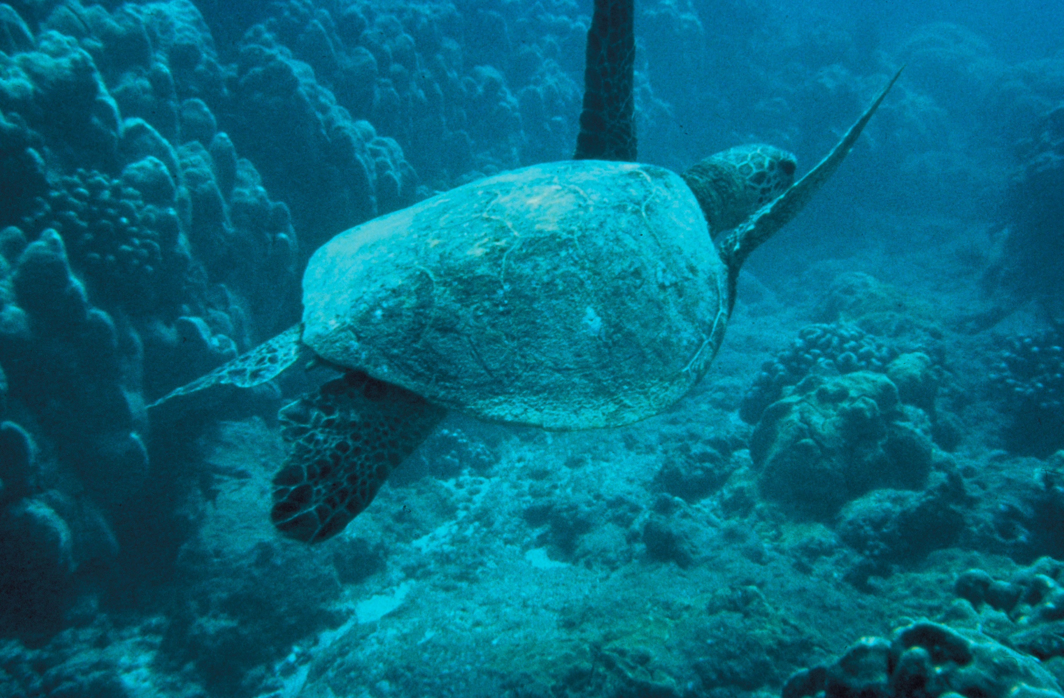 Green sea Turtle (Chelonia mydas)